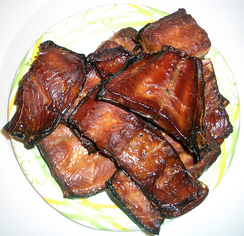 Chum Salmon caught on the Green River at Metzger Park. Caught on 11/29/2008 at 11:30 am on a purple jig drift with a long leader. Smoked on 11/30/2008 in a new Little Chief Smoker.